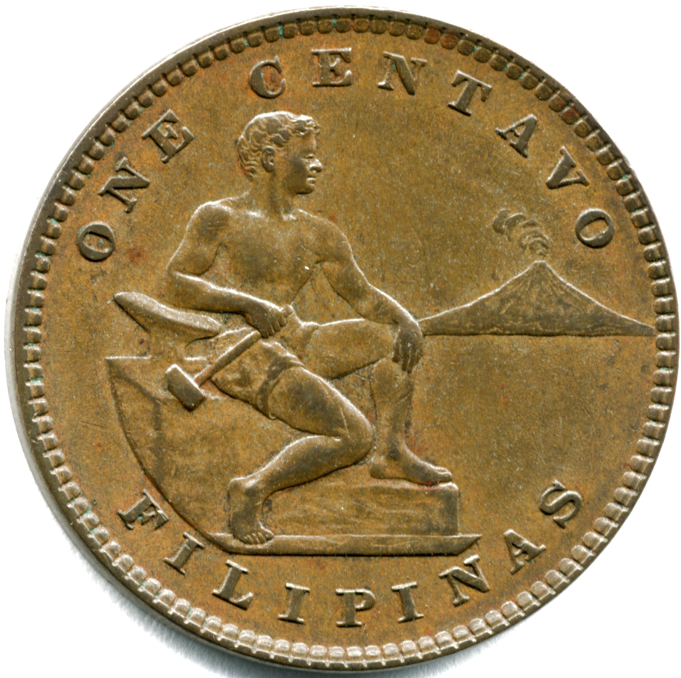 1904 Philippines one centavo obverse